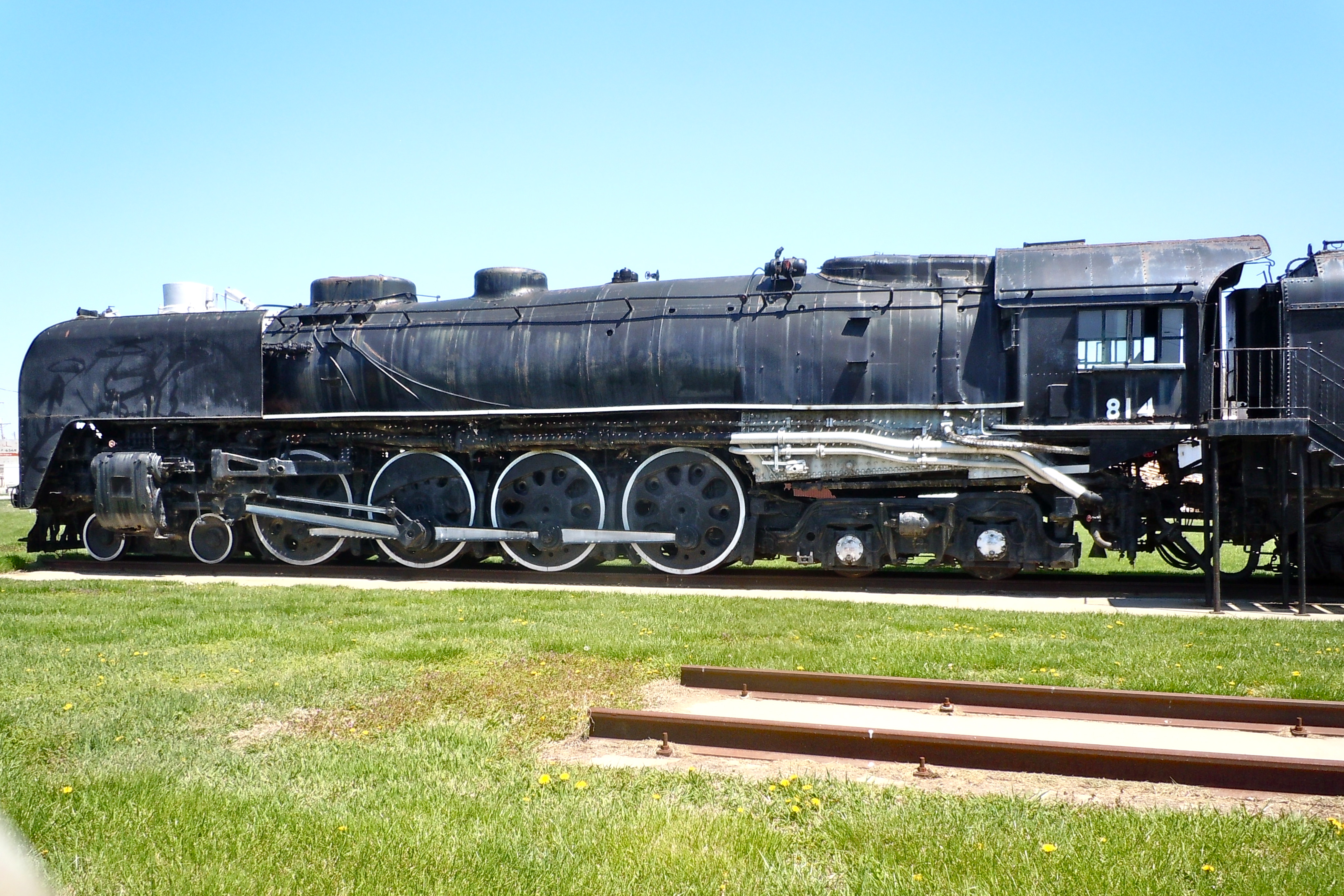 Union Pacific locomotive 814 now in Council Bluffs, Iowa